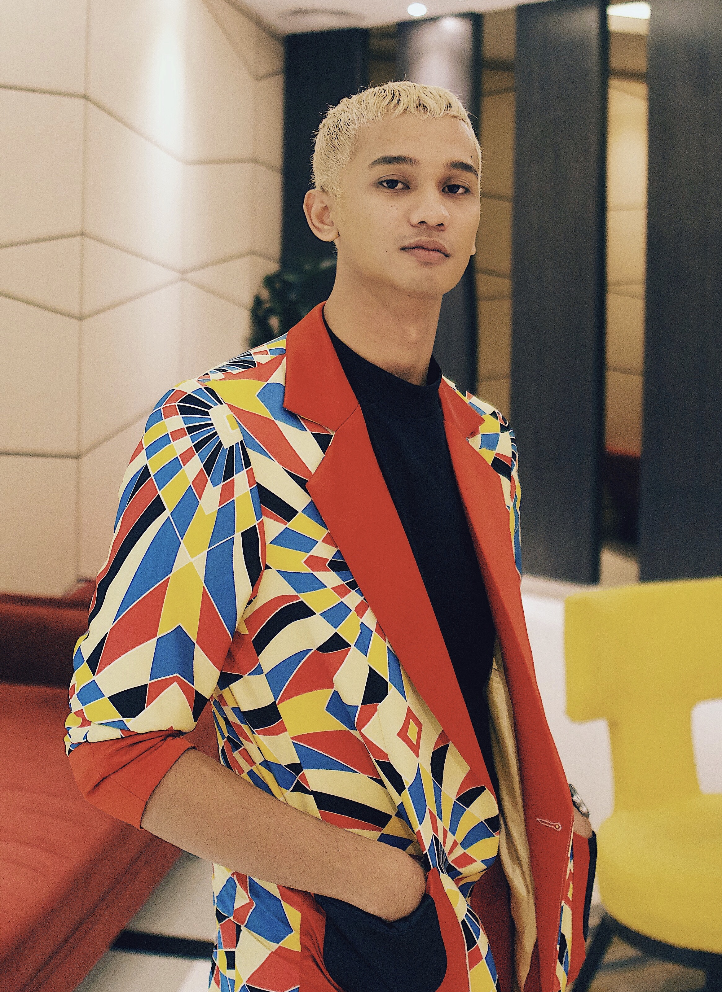 A photo of Yusof Hashim picture with color full suit, taken by camera with vertical angle.